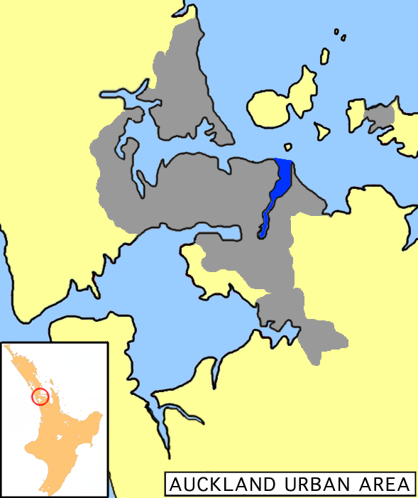 Location map of Tamaki River, New Zealand